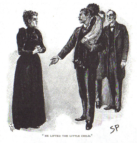 Sidney Paget (died 1908)'s seventh Illustration from Arthur Conan Doyle's "The Yellow Face", originally printed in The Strand Magazine in February 1893. Original caption was "HE LIFTED THE LITTLE CHILD."